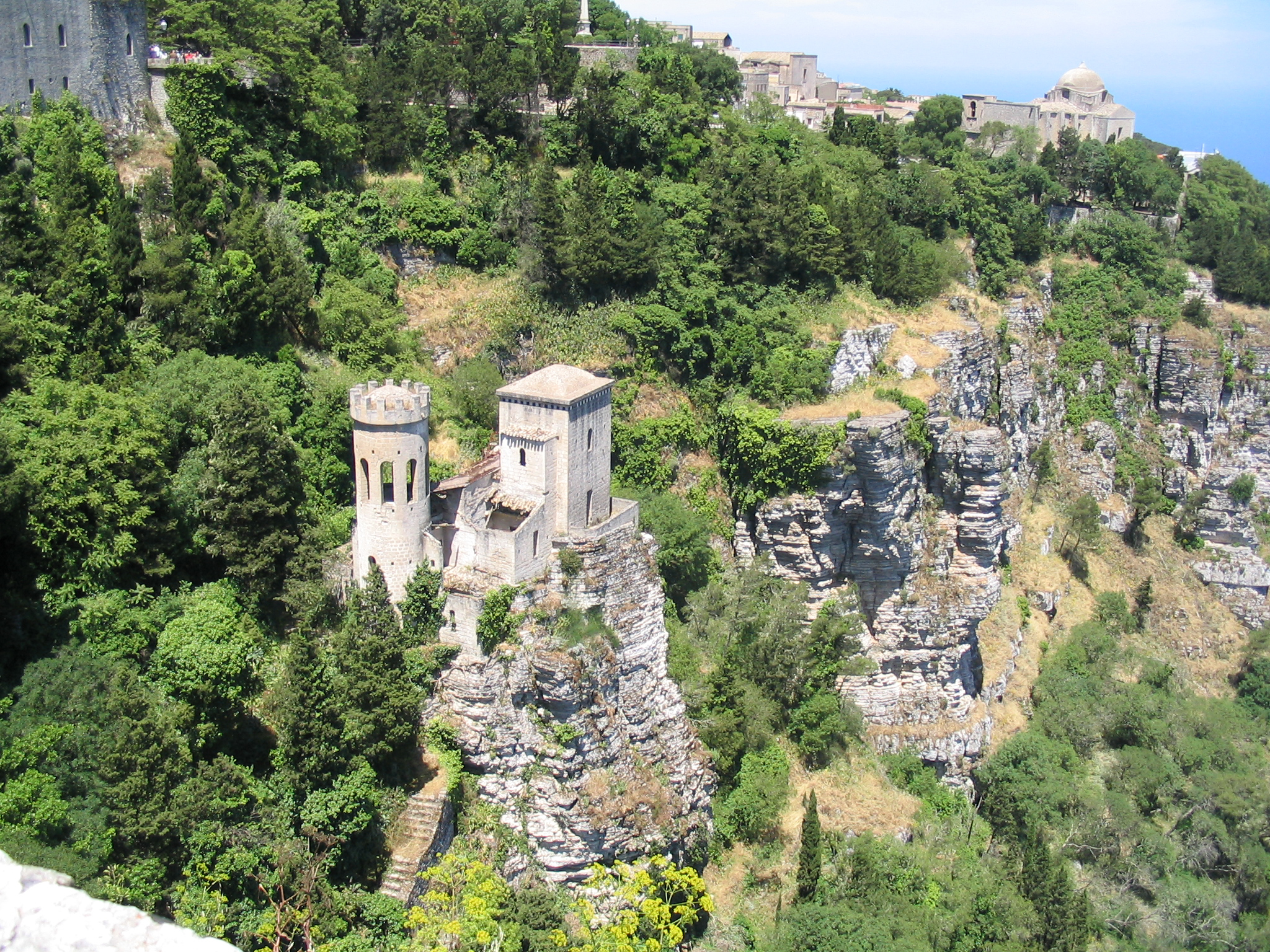 Torretta Pepoli. Erice, Sicily, Italy